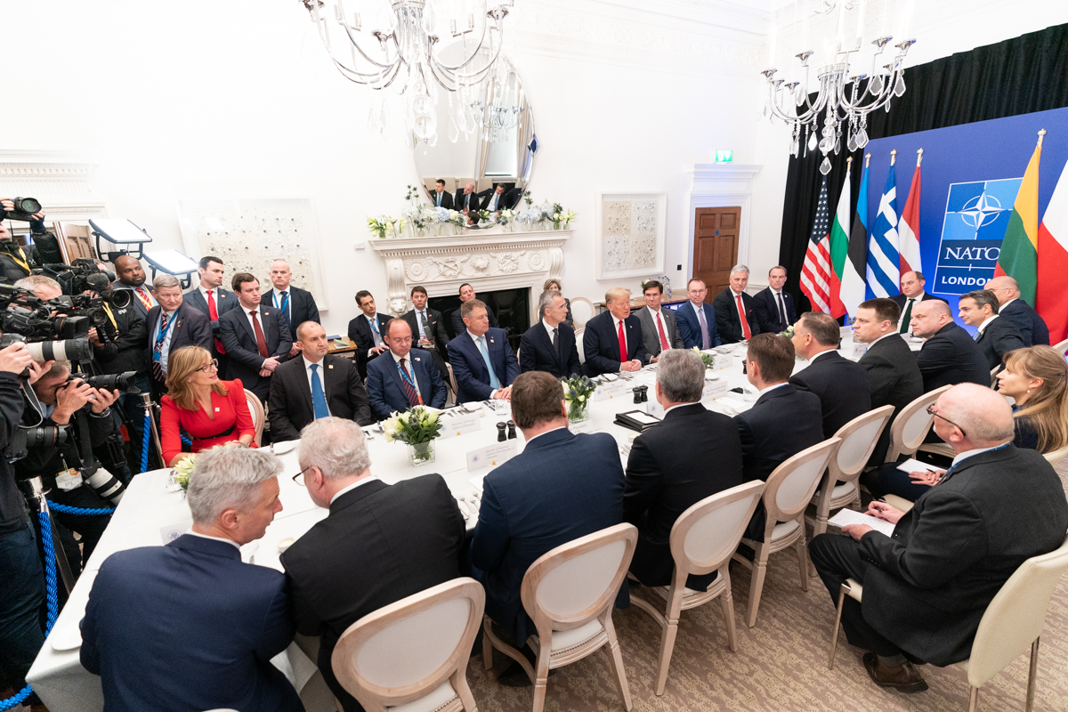 President Donald J. Trump participates in a working lunch with the 2%ers of the North Atlantic Treaty Organization (NATO), during the NATO 70th anniversary meeting Wednesday, Dec. 4, 2019, in Watford, Hertfordshire outside London. (Official White House Photo by Shealah Craighead)